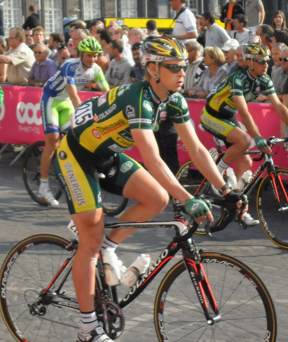 Matti Helminen on Liège-Bastogne-Liège 2011 start line